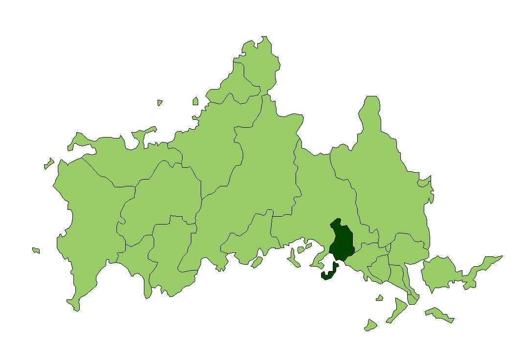 Location Map of Kudamatsu in Yamaguchi Prefecture, Japan